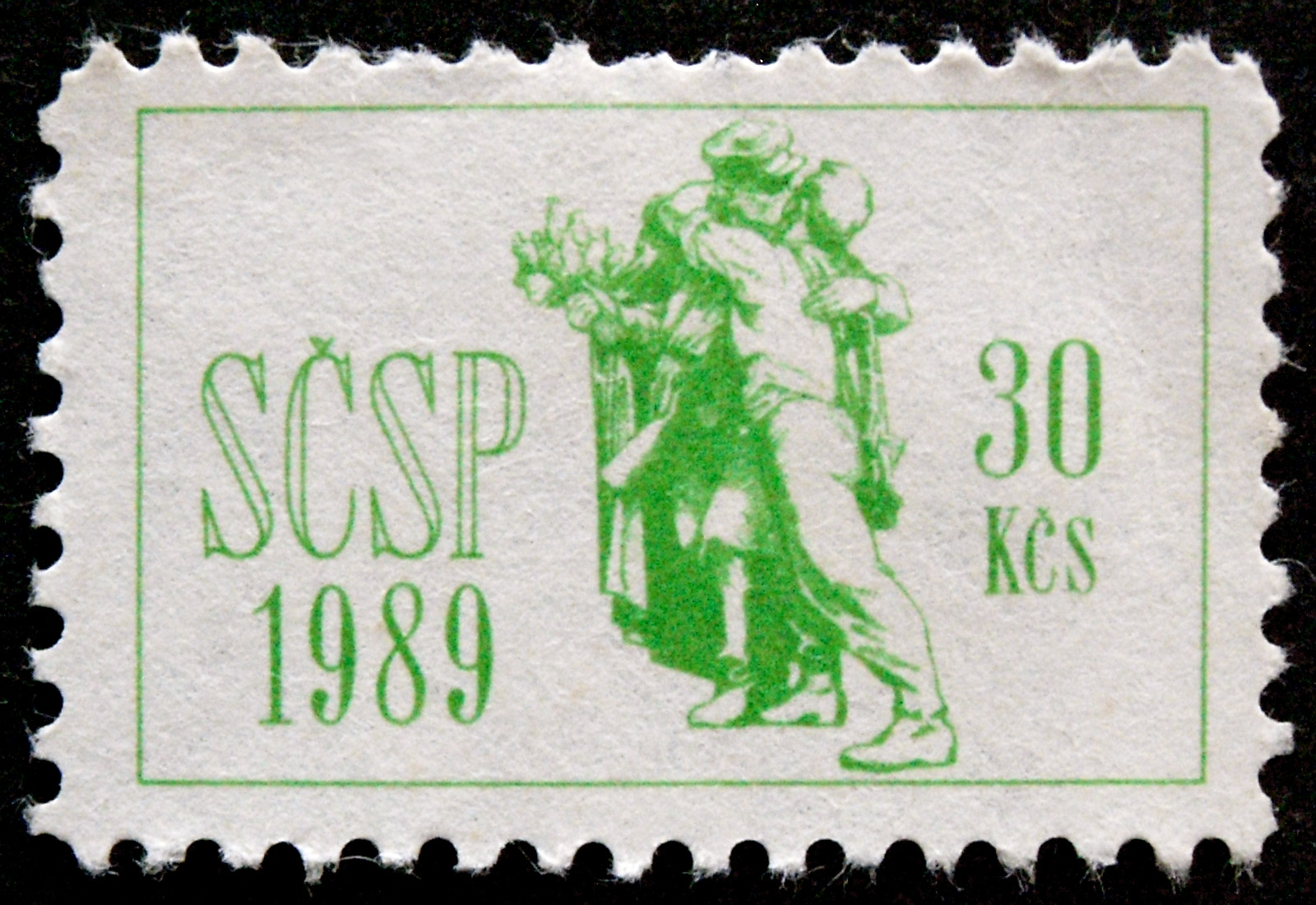 Stamp confirming the payment of membership dues in Fellowship of Czechoslovak-Soviet Friendship in former socialist Czechoslovakia